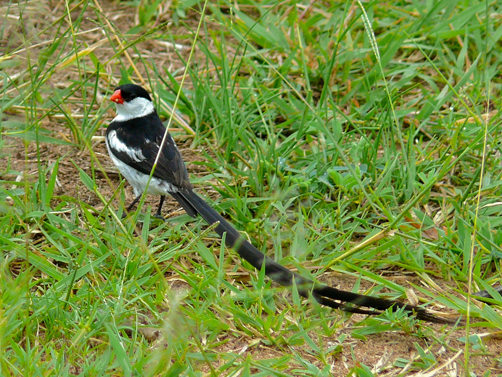 Murchison's Falls NP, UGANDA